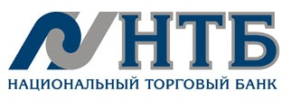 Logo National trade Bank (Russia) from 2011, the Bank has entered into the composition of the "Globex Bank" and the self-ceased to exist.